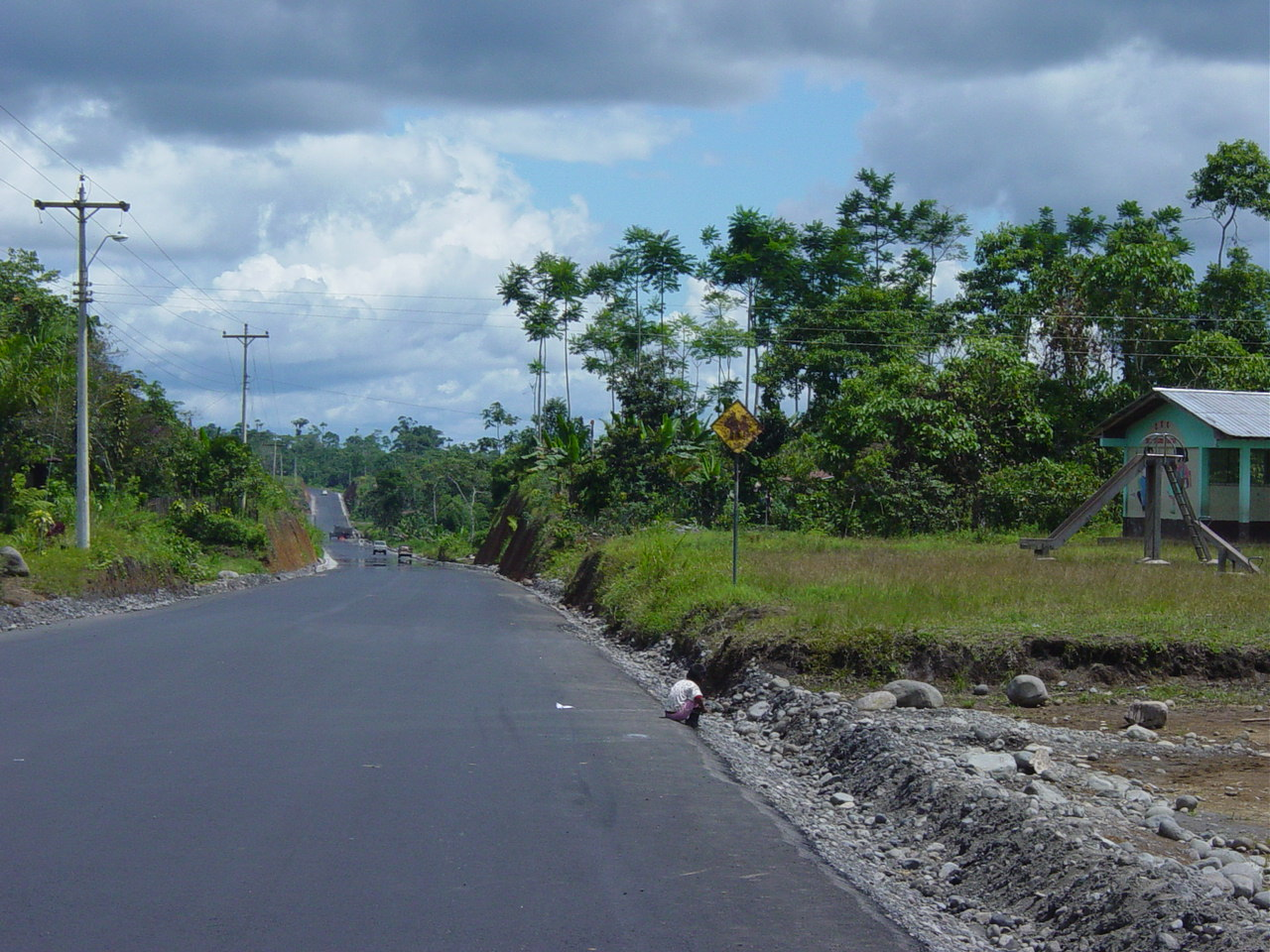 Street near Macas, Ecuador